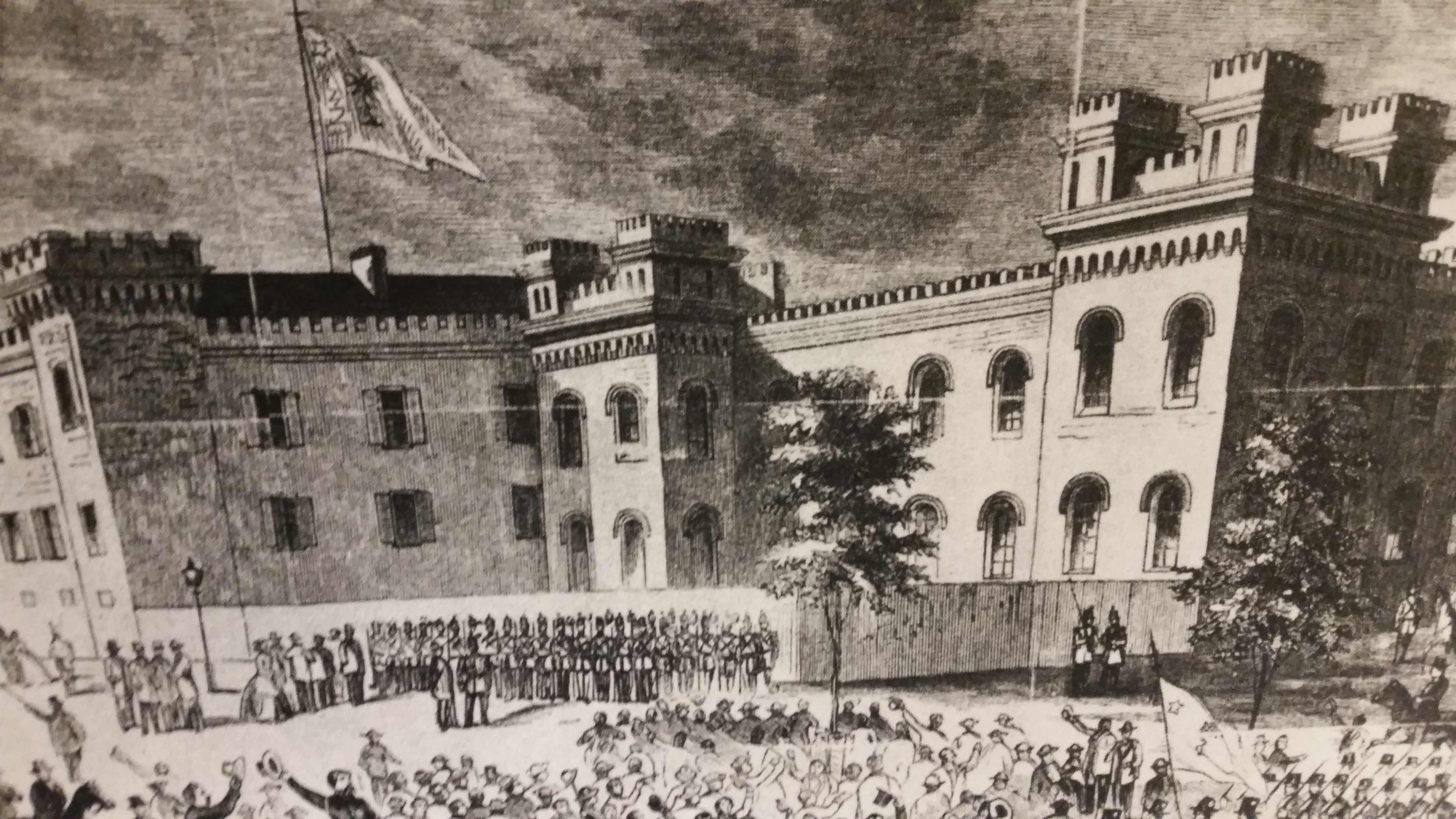 The Citadel at the start of the Civil War. Image on display at Fort Sumter National Monument